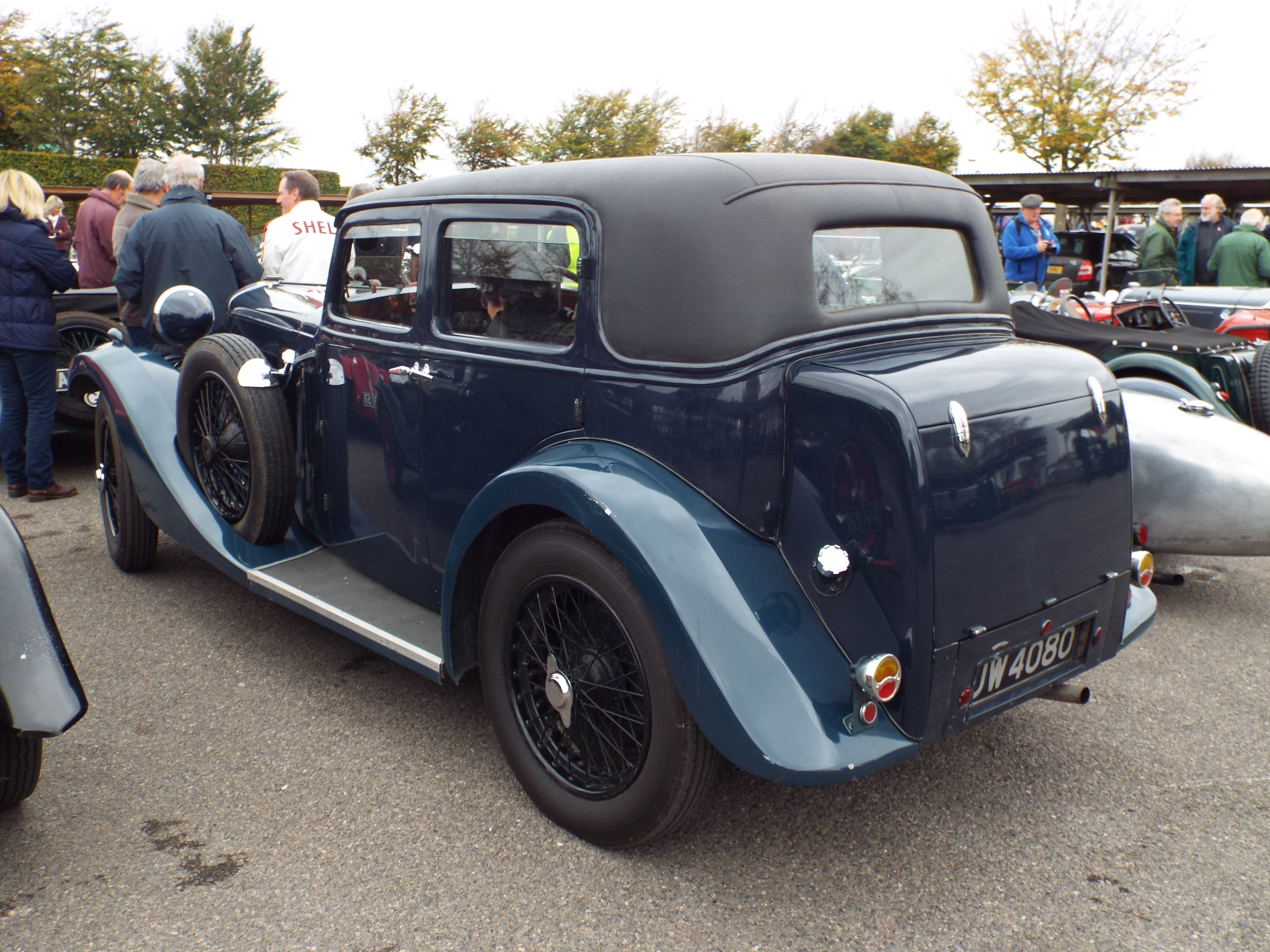 1934 Sunbeam Speed Twenty sports saloon (DVLA) first registered 31 December 1933, 2916 cc 2014 - VSCC Autumn Sprint, Goodwood